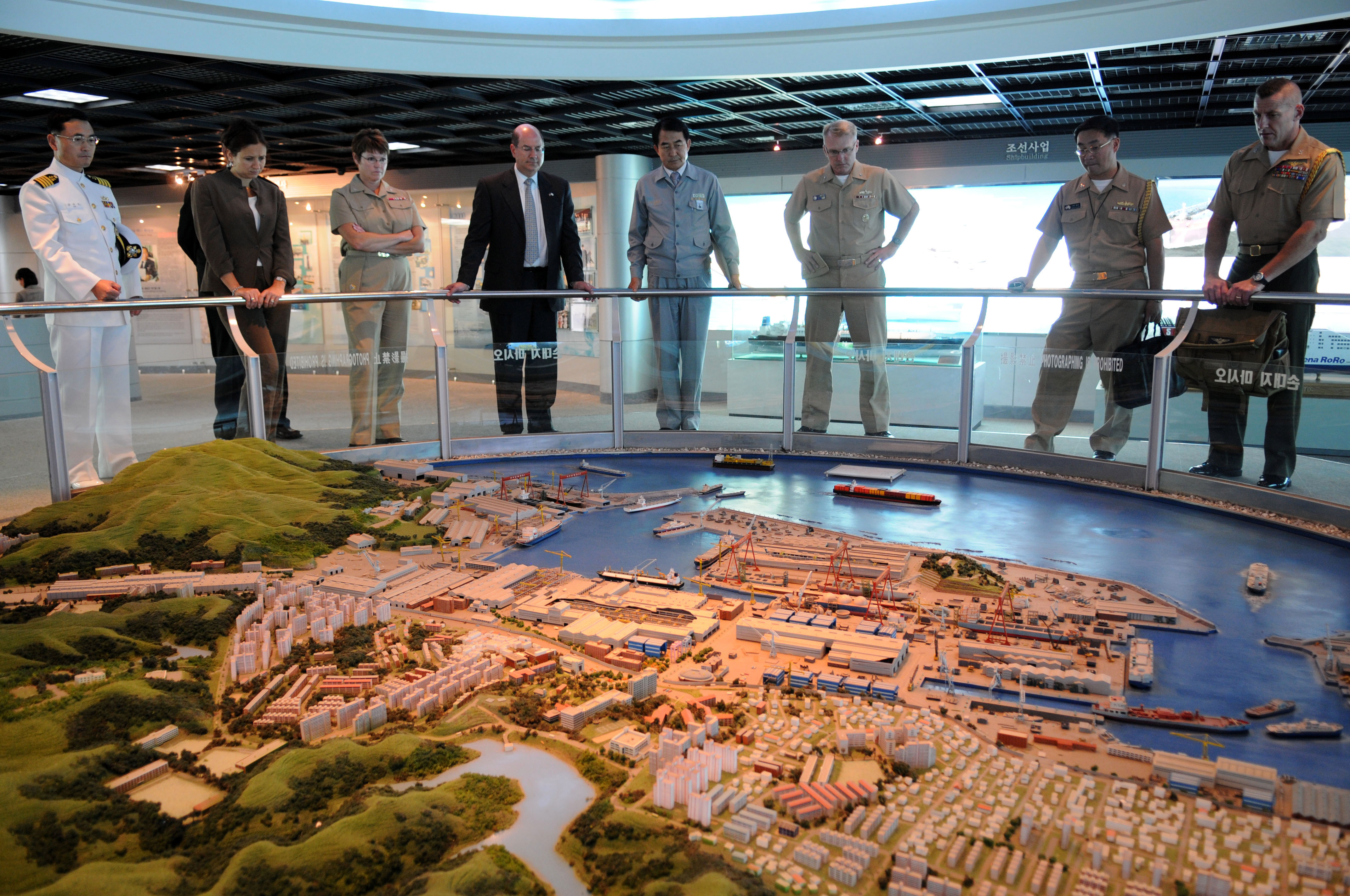 Secretary of the Navy (SECNAV) the Honorable Dr. Donald C. Winter receives a tour of Hyundai Heavy Industries Shipbuilding facilities. 080923-N-5549O-025 ULSAN, South Korea (Sept. 23, 2008) Secretary of the Navy (SECNAV) the Honorable Dr. Donald C. Winter receives a tour of Hyundai Heavy Industries Shipbuilding facilities. Winter is on a three-day visit to Korea to visit with Sailors, Korean military leaders, and industry representatives. — Released (Text by U.S. Navy)